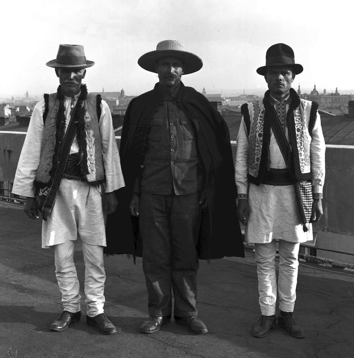 Hutsuls from Kolomyja, Ivano-Frankivsk region, western Ukraine. Prewar photo.